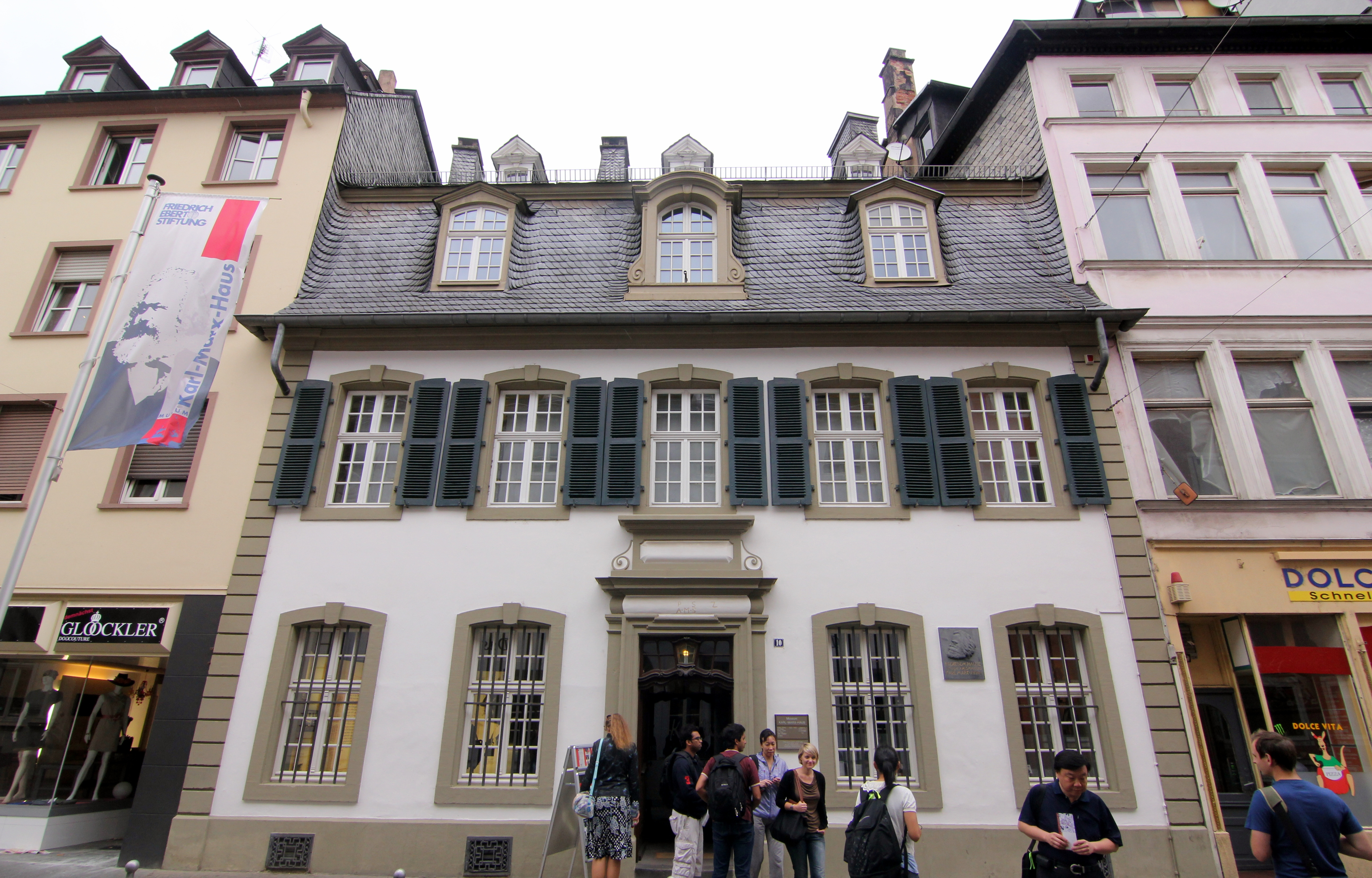 Karl Heinrich Marx House, Trier Germany